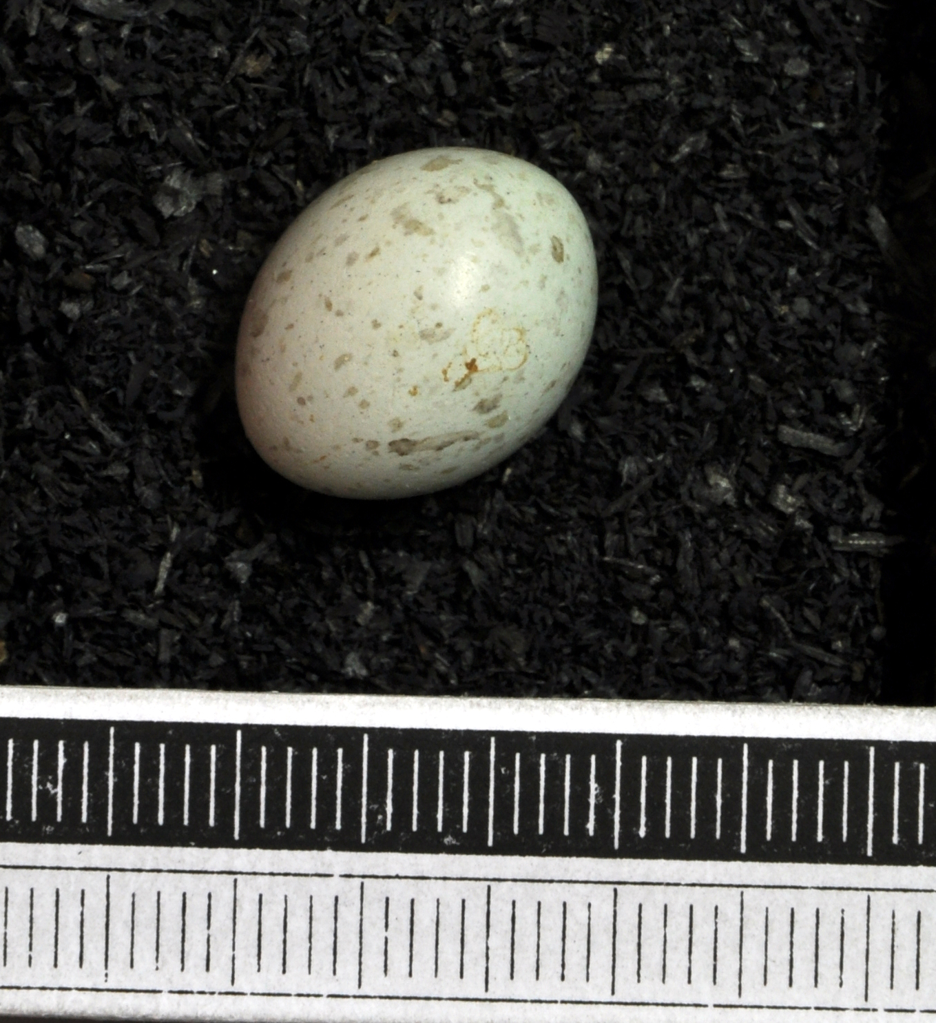 Zanzibar red bishop Euplectes nigroventris , egg, Coll. Museum Wiesbaden